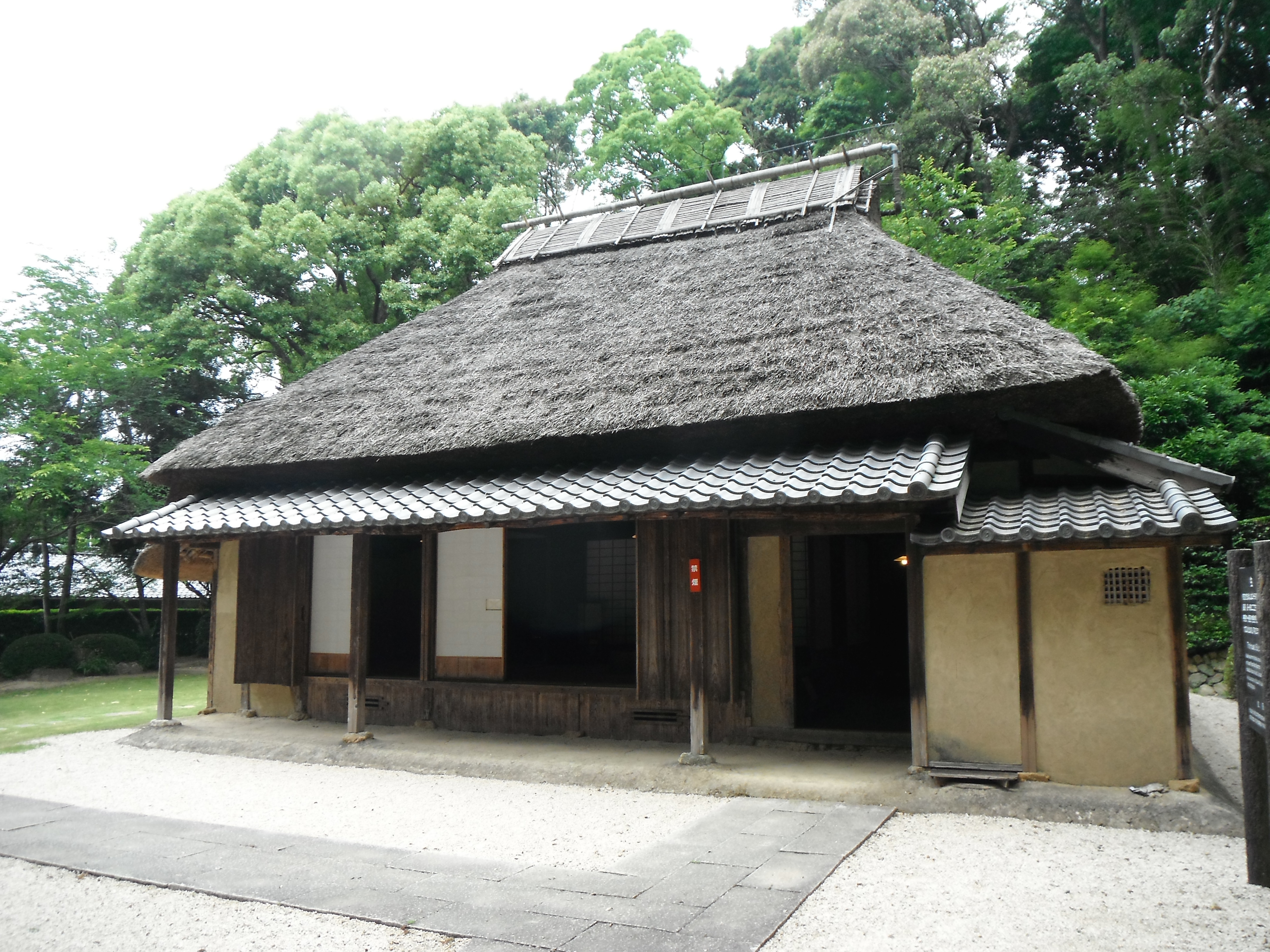 Toyota Sakichi Memorial Hall(Birthplace)